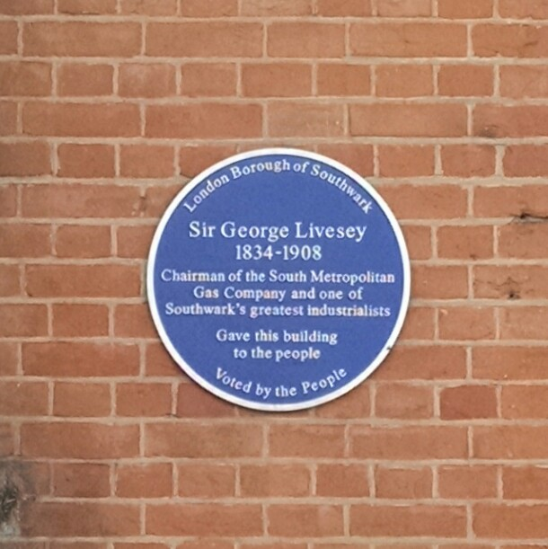 Sir George Livesey 1834-1908 Chairman of the South Metropolitan Gas Company and one of Southwark's greatest industrialists Gave this building to the people